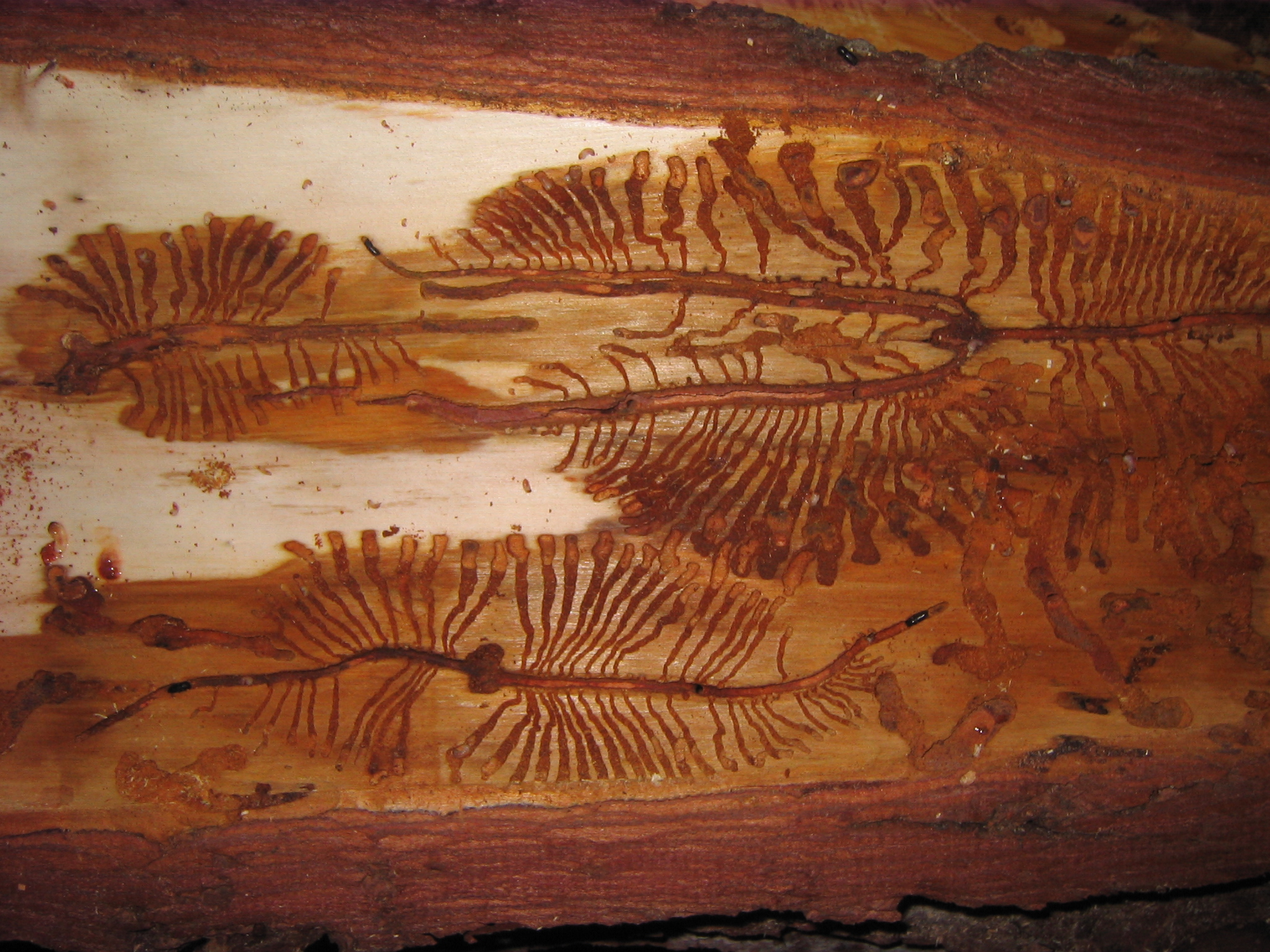 Larch bark beetle burrows